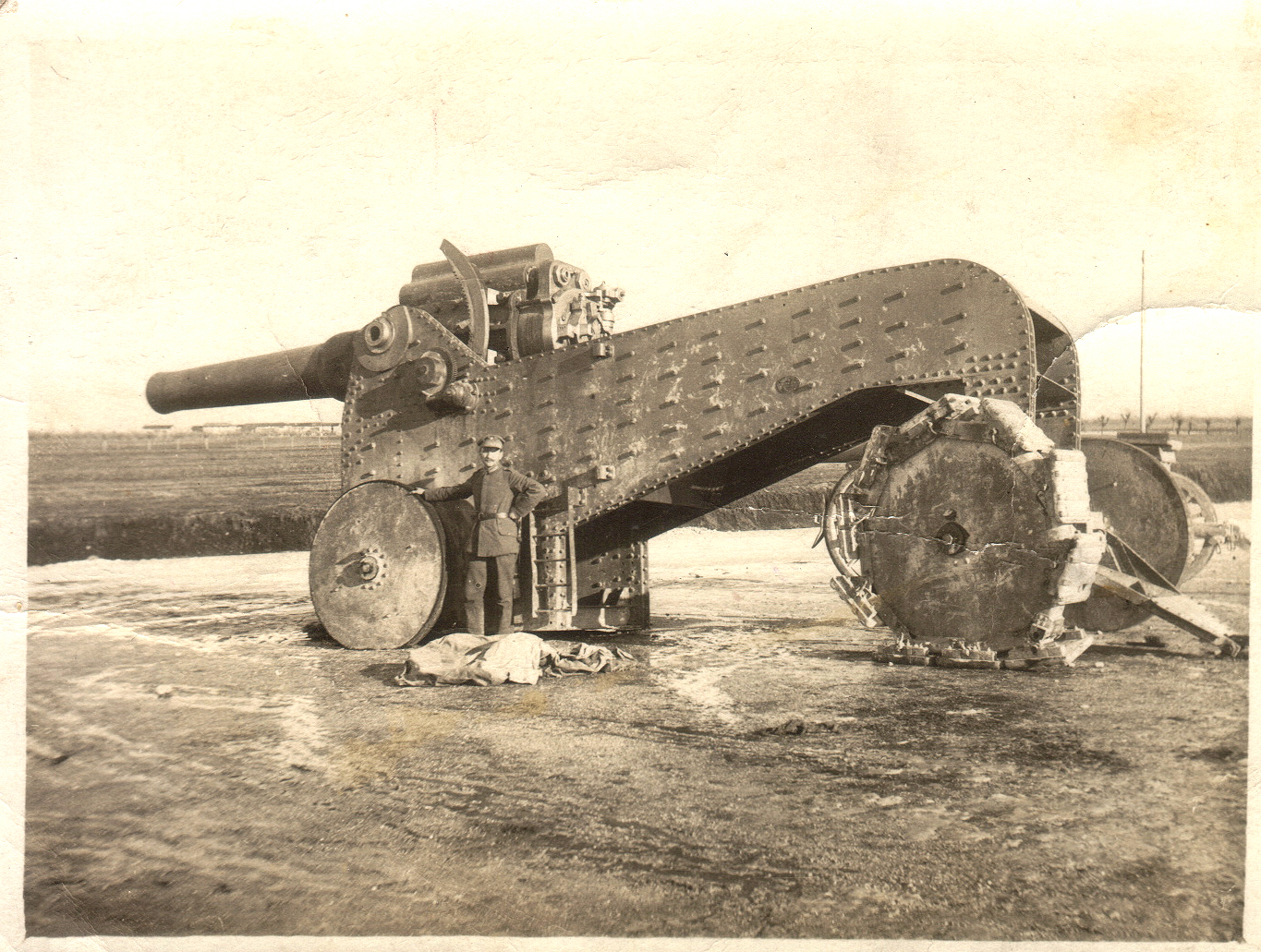 Old postcard with 305 mm Italian howitzer, captured probaly in 1917 by the german-austria-hungarian forces on the Isonzo-Front. The gun carriage was known as a De Stefano carriage. Normally it was employed on rails, but pictured here is ad-hoc variant.